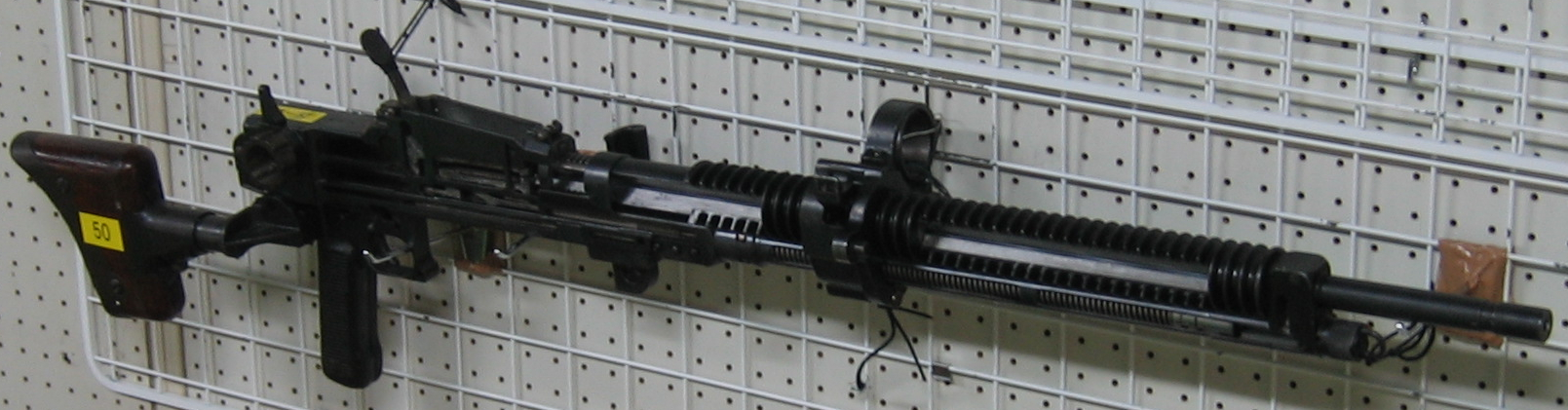 A sectioned infantry version of the Type 97 at the Sinbudai Old Weapon Museum, Camp Asaka, Japan